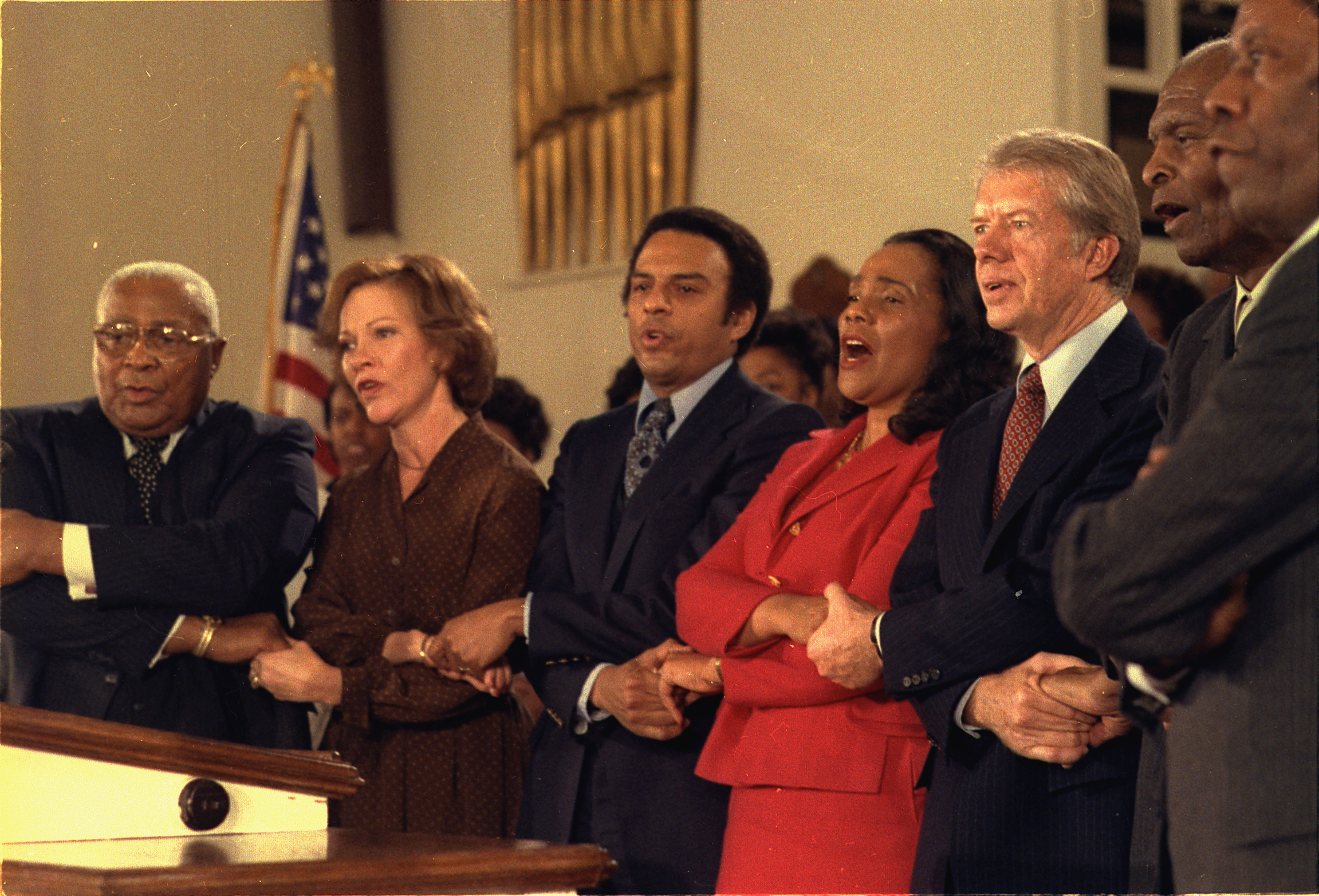 Martin Luther King Sr., Rosalynn Carter, Andrew Young, Coretta Scott King, Jimmy Carter, 2 unidentified men. Holding hands at service at Ebenezer Baptist Church in Atlanta. 1979.